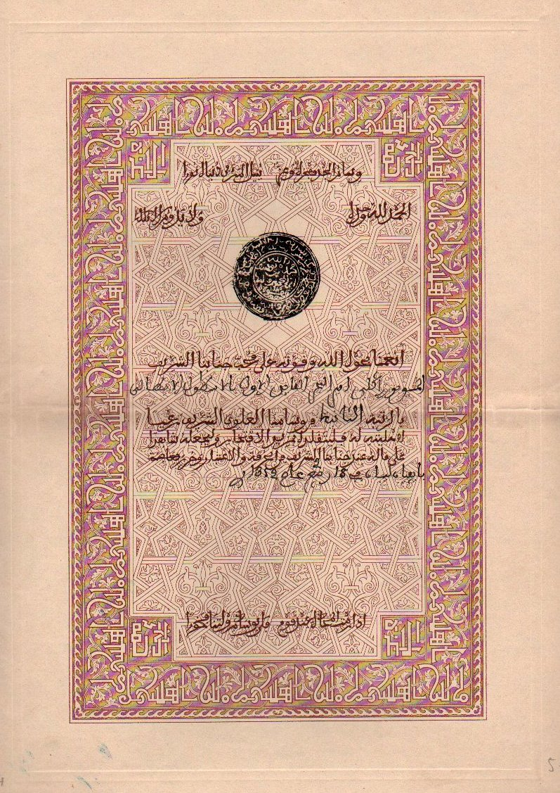 Award of Order of Ouissam Alaouite in old Arabic variety from Morocco. On the top of the document above the black seal in the middle there is a verse from a poem saying He who dares the seas it is a glory for him ***** the one in his life with eminence. Then there is two very common-occurring religious prayer in official documents saying the praise is only for good (Allah) no one Immortal but Allah. Then comes the main subject of this document, which is something like: We grant -under the supremacy and the power of Allah- the boon companion of our honourable prestige The admiral, Monsieur (Po*** Racli)[Burzagli], the first chef of the Italian squadron, we grant him the second rank of our Alawid medal of honour. So let him wears it with so much proud and to consider it as a witness to what he had of consideration and respect in our honourable prestige. ****, Libya, 18 Rabia 1312 (Hijri). [**** = incomprehensible]